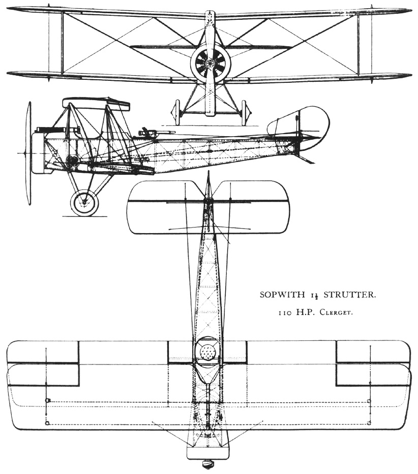 Sopwith 1½ Strutter drawing